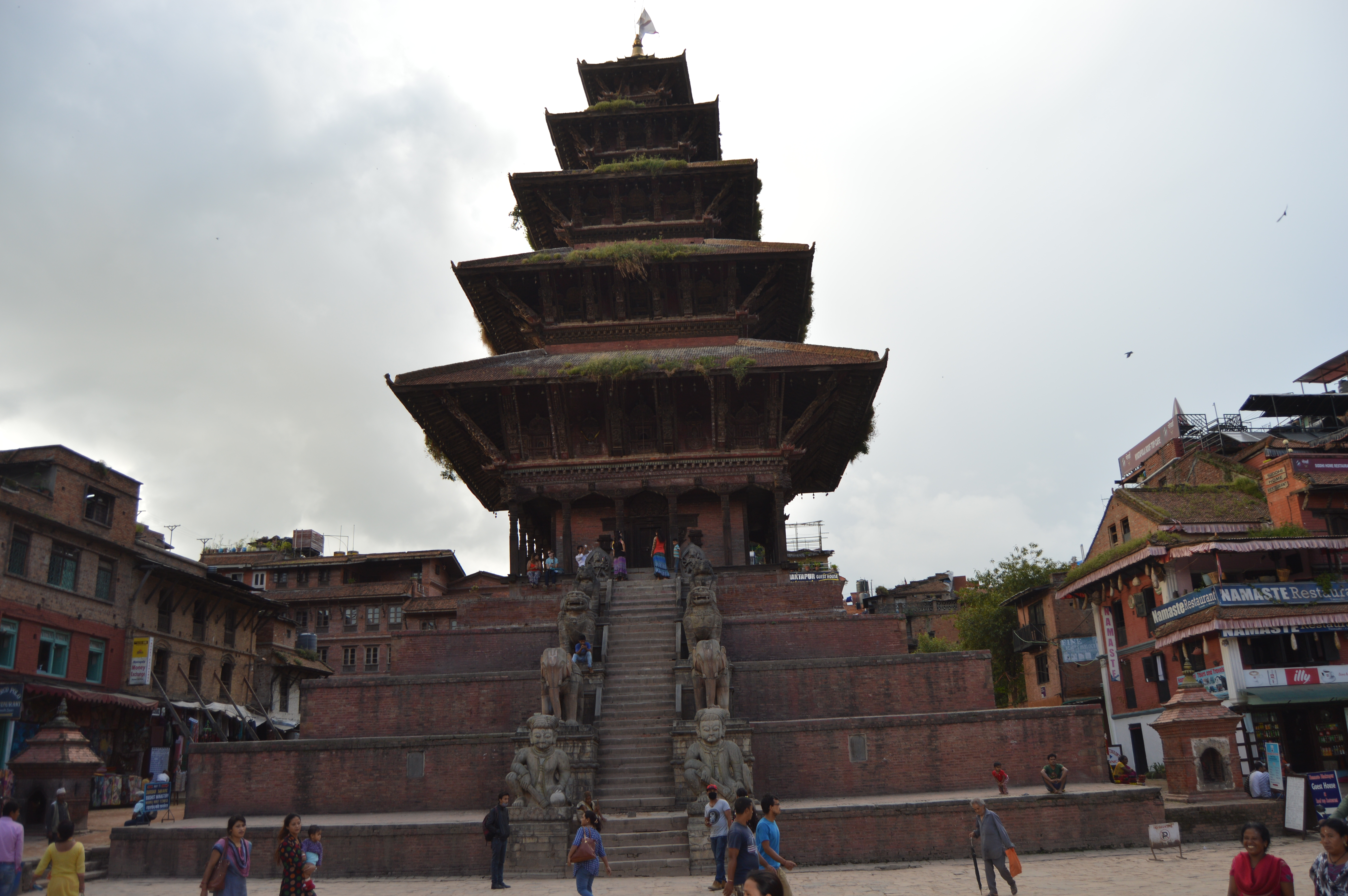 Nyatpol (Natapol Dutra)